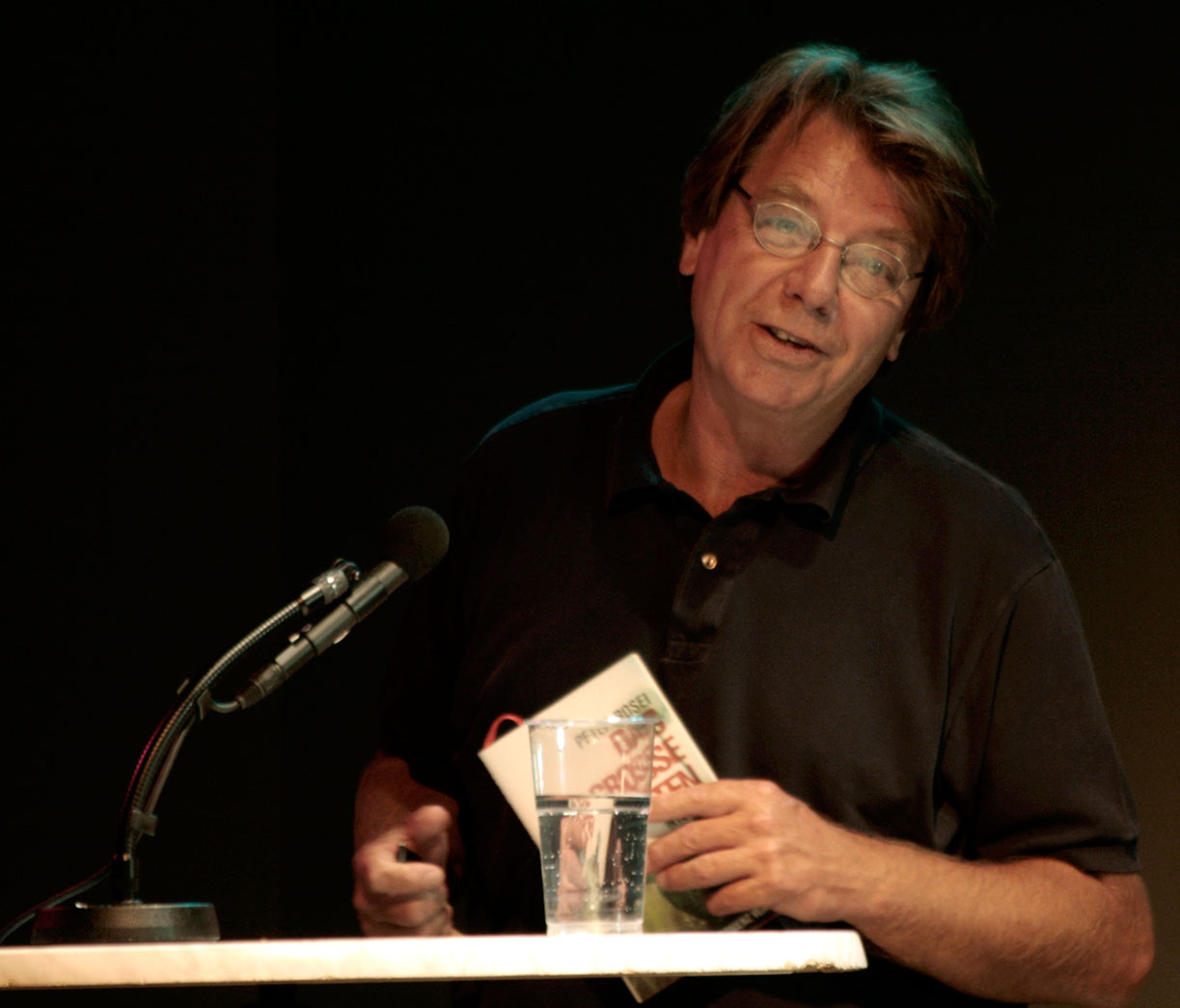 Writer Peter Rosei reading from 'Das große Töten' (literary evening "Rund um die Burg" 2009 near the Burgtheater in Vienna).